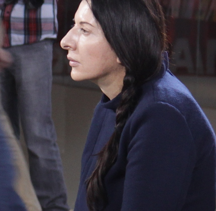 Marina Abramovic at the MoMA in 2010